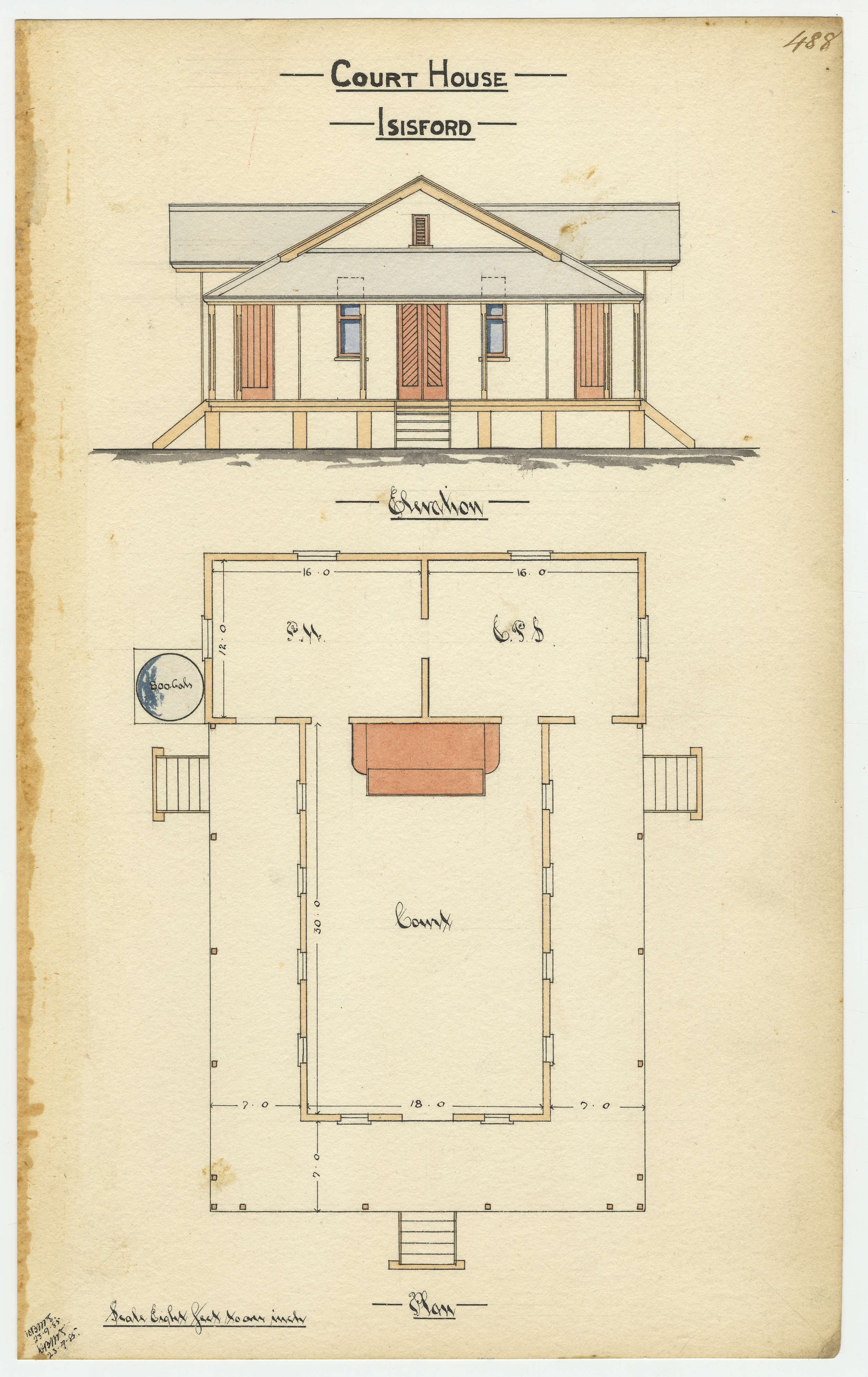 Architectural drawing of the Court House, Isisford, 23 September 1885